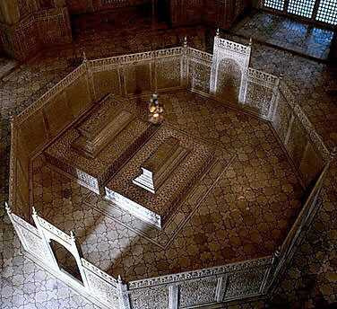 Note that Mumtaz's tomb is centered and symmetric, but Shah Jehan's cenotaph is offset from center. It was added after his death. Picture courtesy - Explore the Taj Mahal online virtual tour